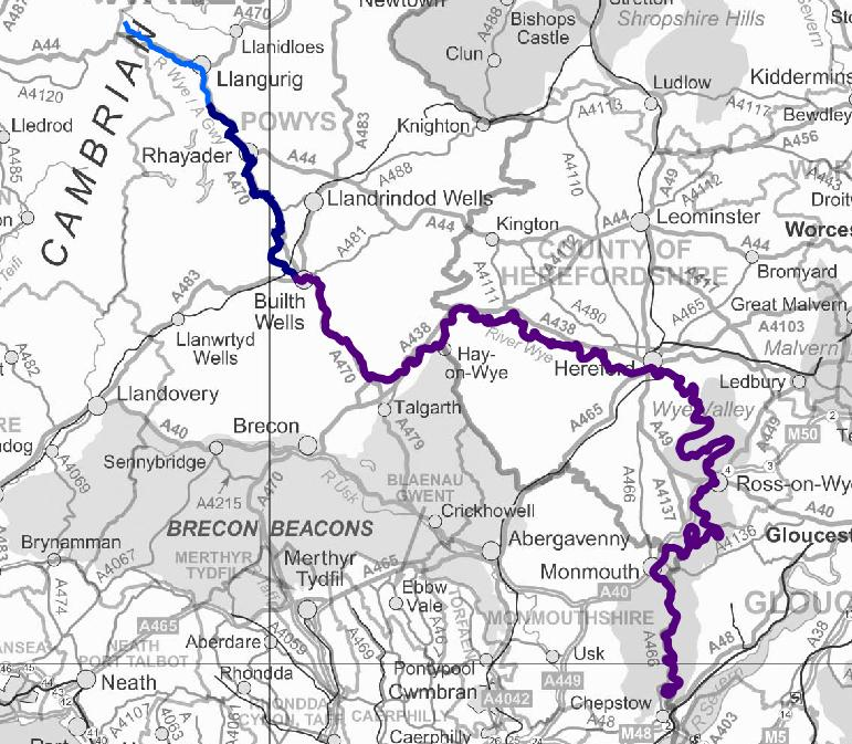 Outline of central flow of the river, from source to sea. Created using QGIS.